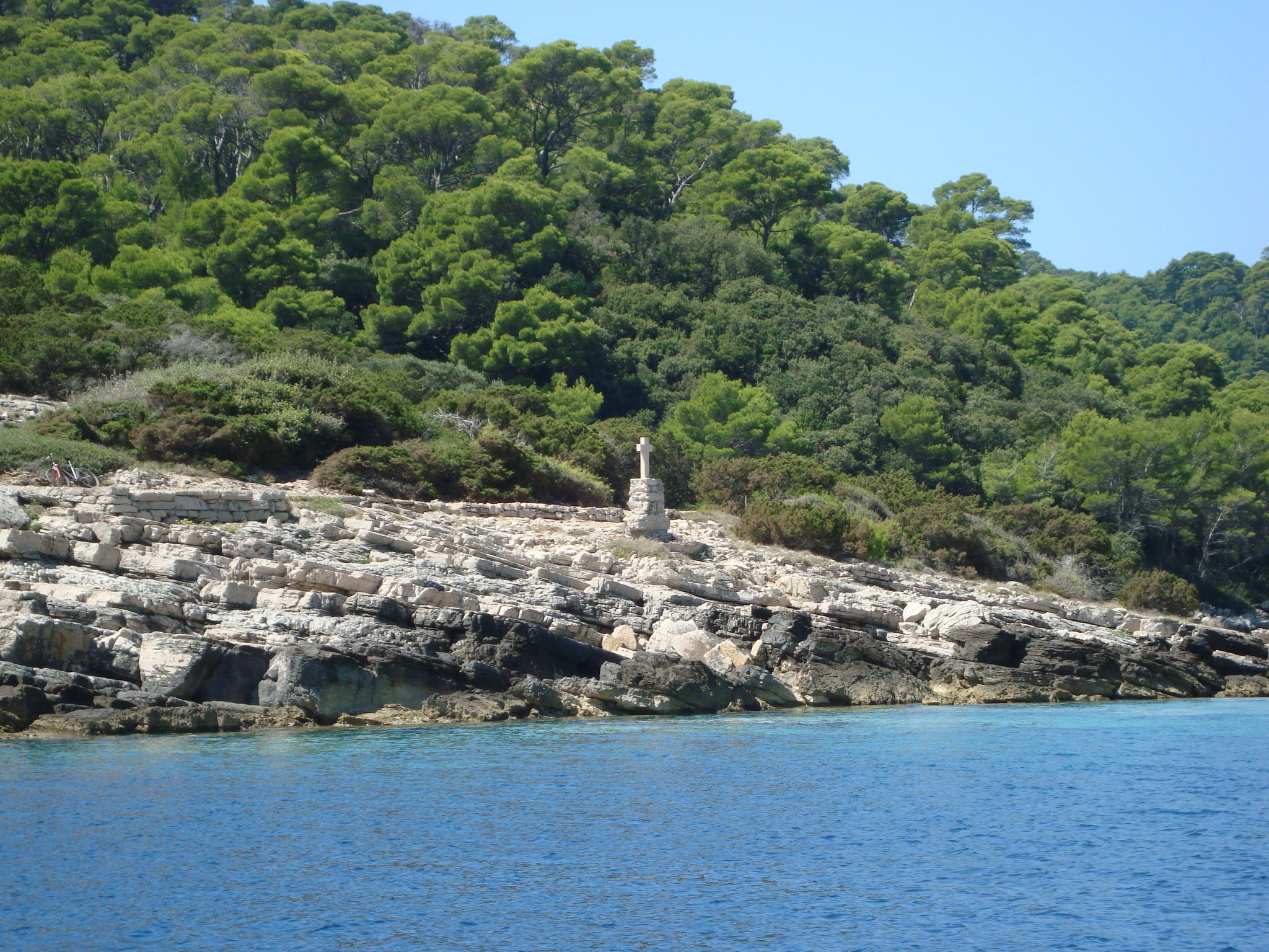 Cross on the Soline Gate (beginning of the Great Lake). The original cross, with glagolic inscription, is preserved in St. Mary church in the St. Mary's island on the Great Lake, on the island of Mljet, Croatia